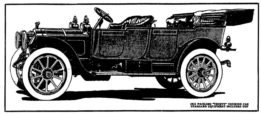 1910 Packard Advertisement for 1911 Packlard "Thirty" Touring car